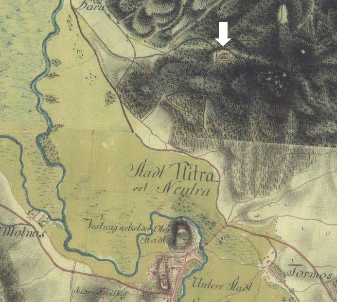 Map of Nitra with Zobor Abbey (arrow)